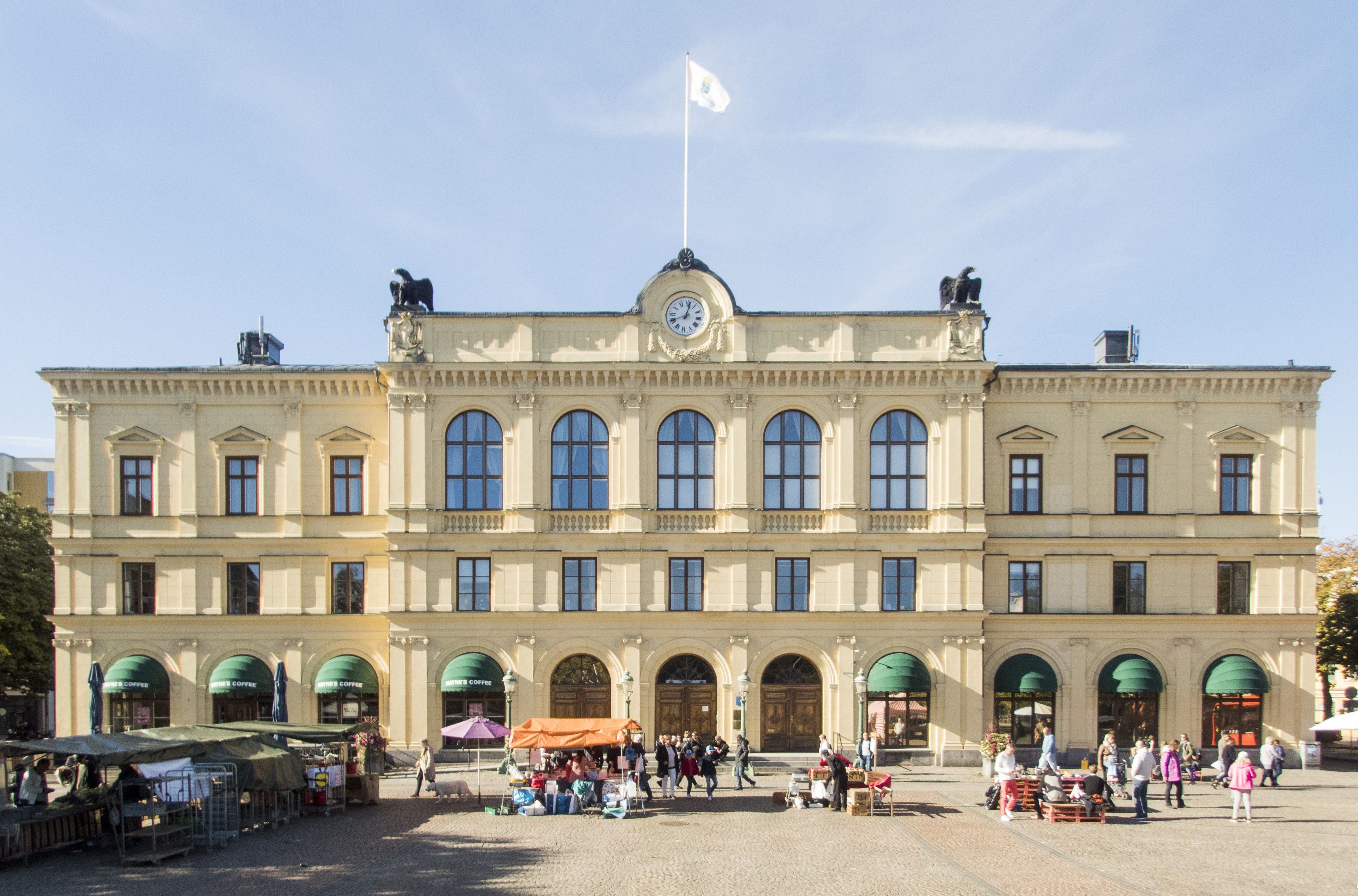 Karlstads rådhus, nybyggnadsår 1868, Ernst Jacobsson (Arkitekt). Lars Johansson (byggmästare)